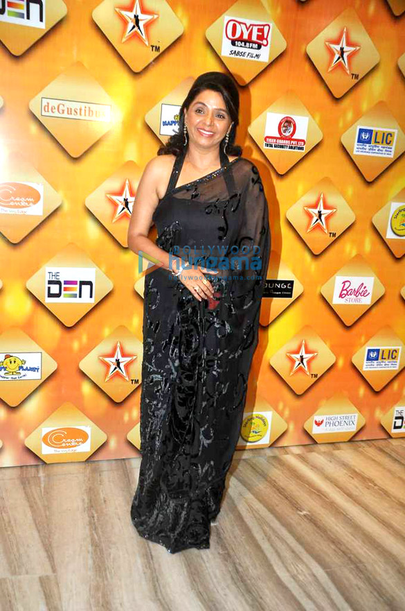 Thakkar grace Mumbai Police & NGO kids function